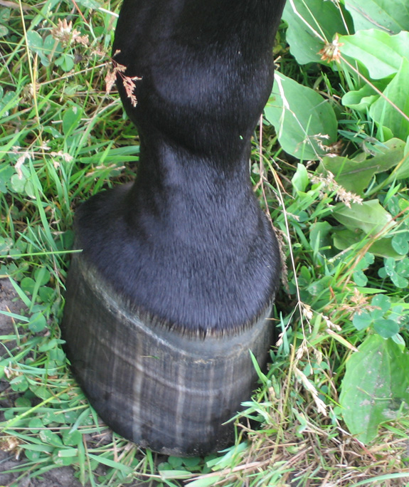 Image of a dark hoof without shoe